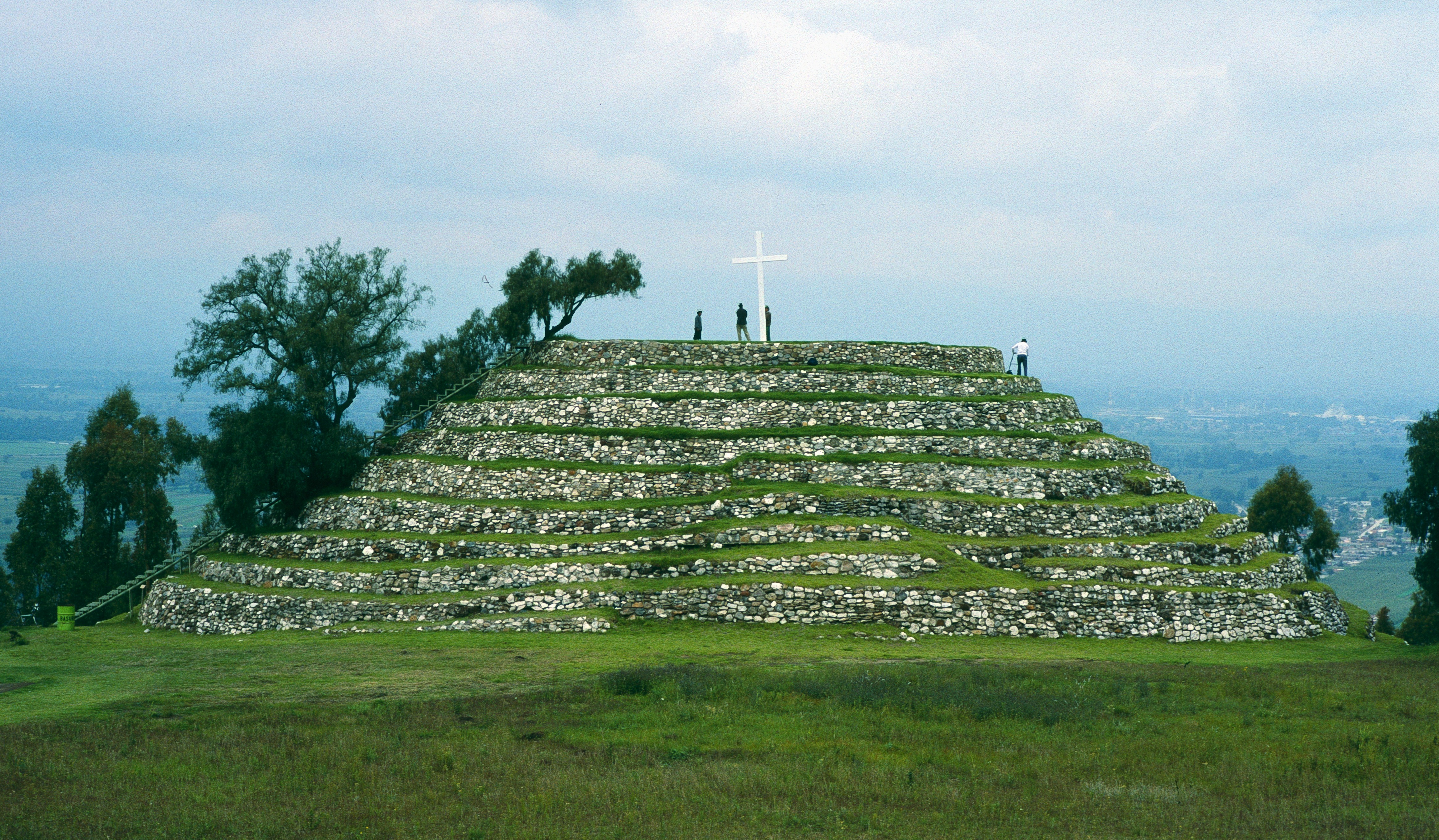 Xochitecatl, Tlaxcala, Mexico